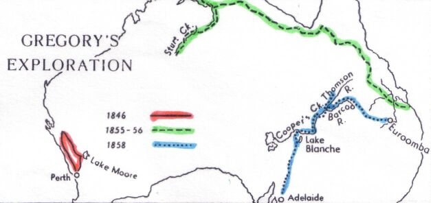 Map of the explorer Augustus Charles Gregory's route in Australia.